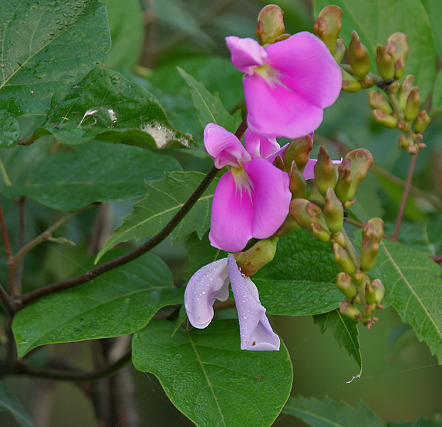 Canavalia lineata in Uppalapadu, Andhra Pradesh, India.